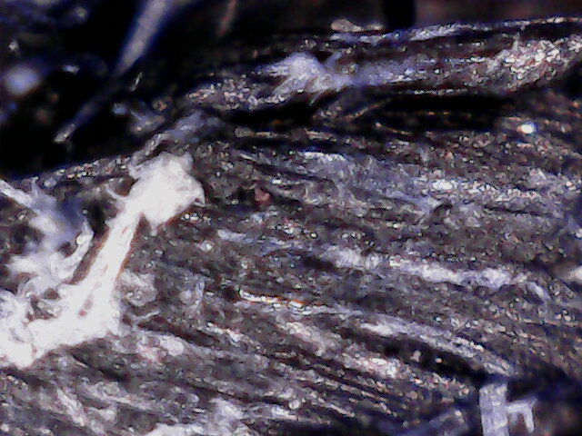 This picture is taken by digital microscope(100x magnification). This is enlarged view of yarn of jeans.